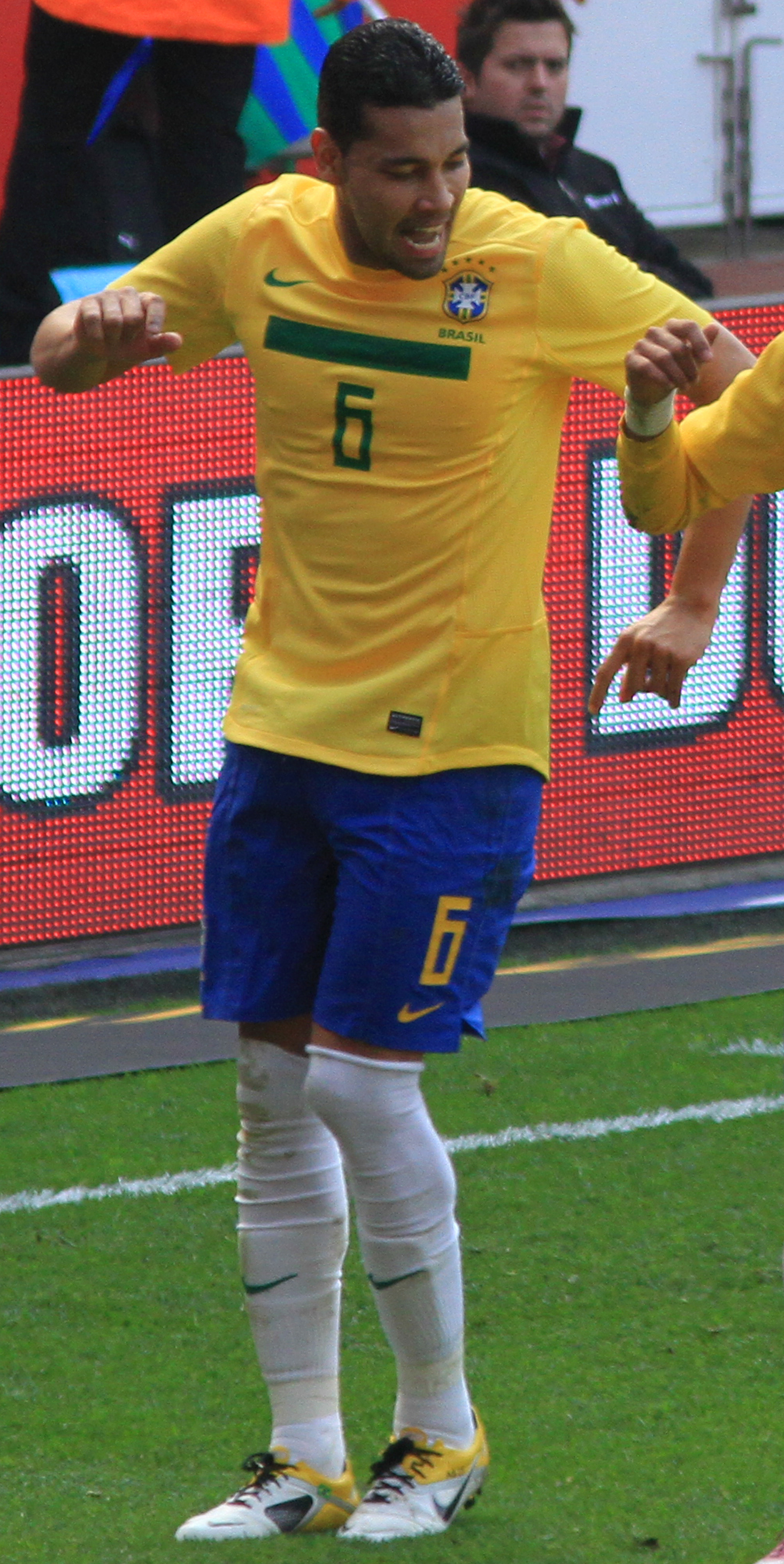 André Santos, Neymar and Ramires celebrate Neymar's goal 1